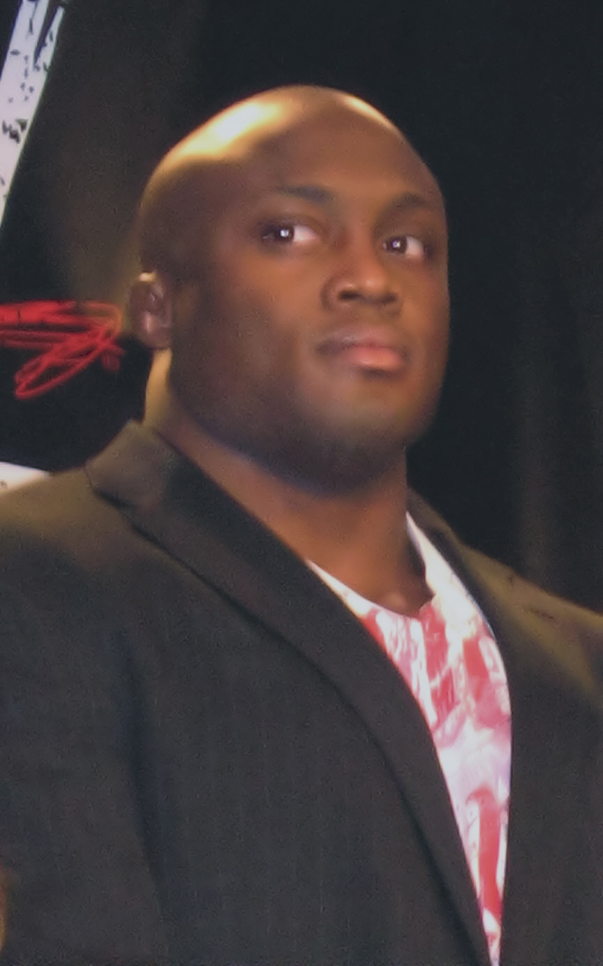 WWE wrestler Bobby Lashley at a news conference held at Madison Square Garden, representing WWE for its support of U.S. servicemembers.